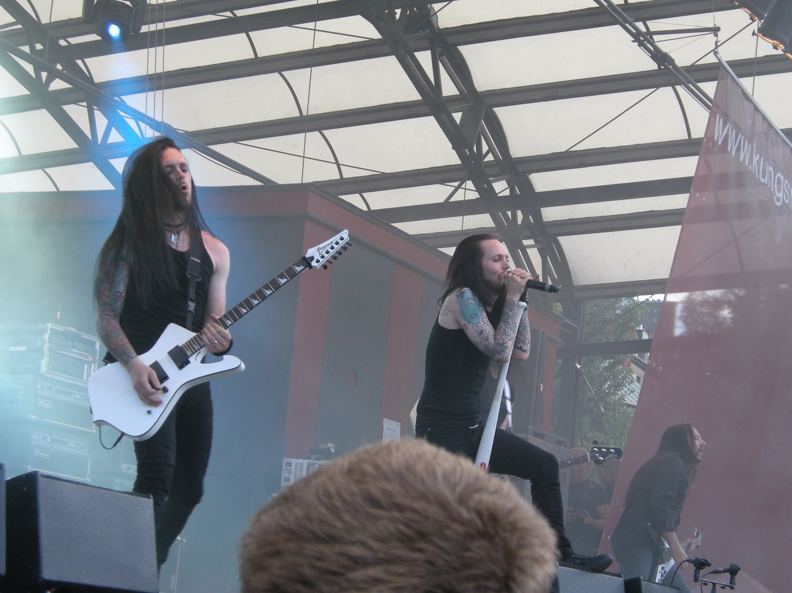 Swedish metal band Engel at Kungsträdgården, Stockholm, Sweden